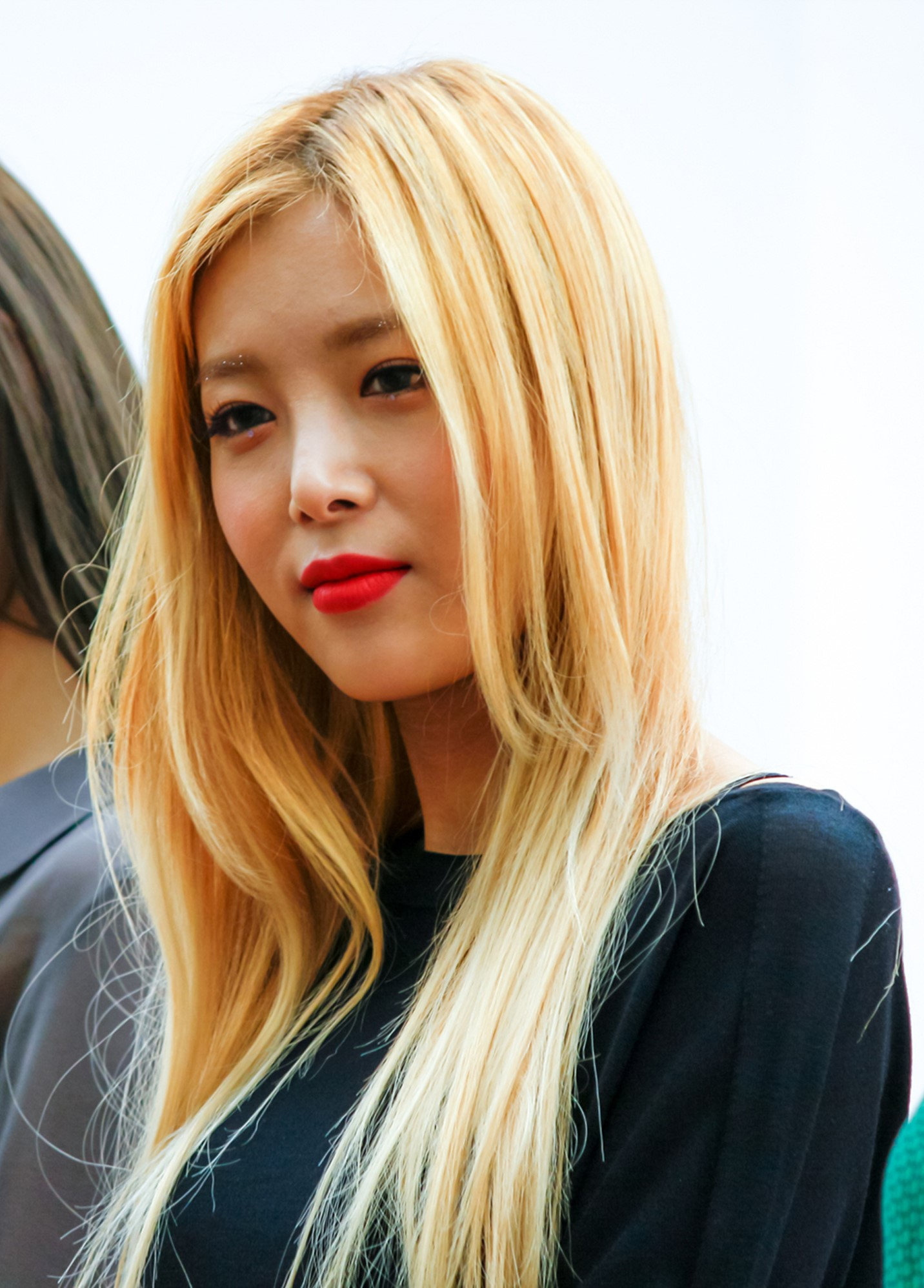 Kim Yu-bin at a fanmeet on July 15, 2016.